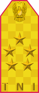 General of the Army rank insignia that used on ceremonial uniforms of Indonesian Army